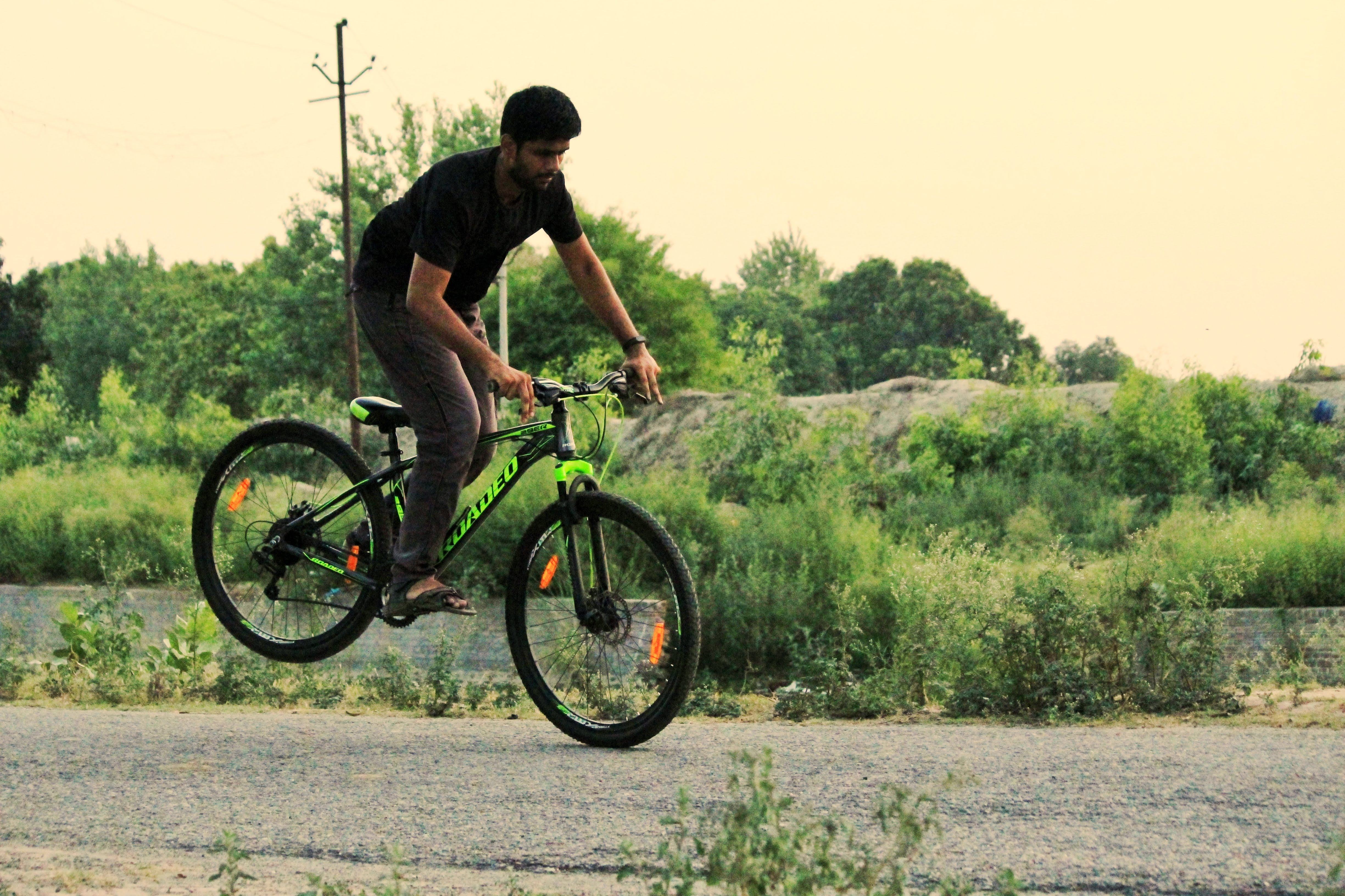 To performing this stunt you need to balance your weight over the front wheel point at which it touches the ground.